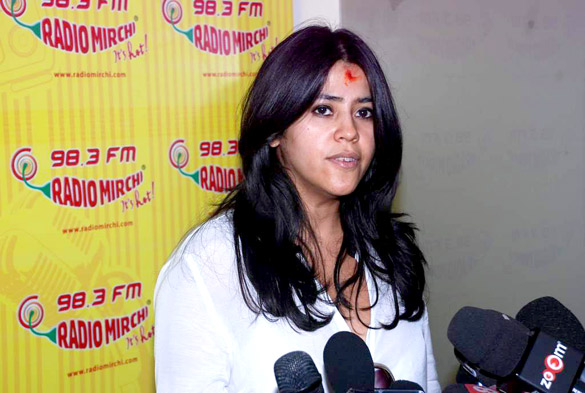 Ekta Kapoor at 98.3 FM Radio Mirchi